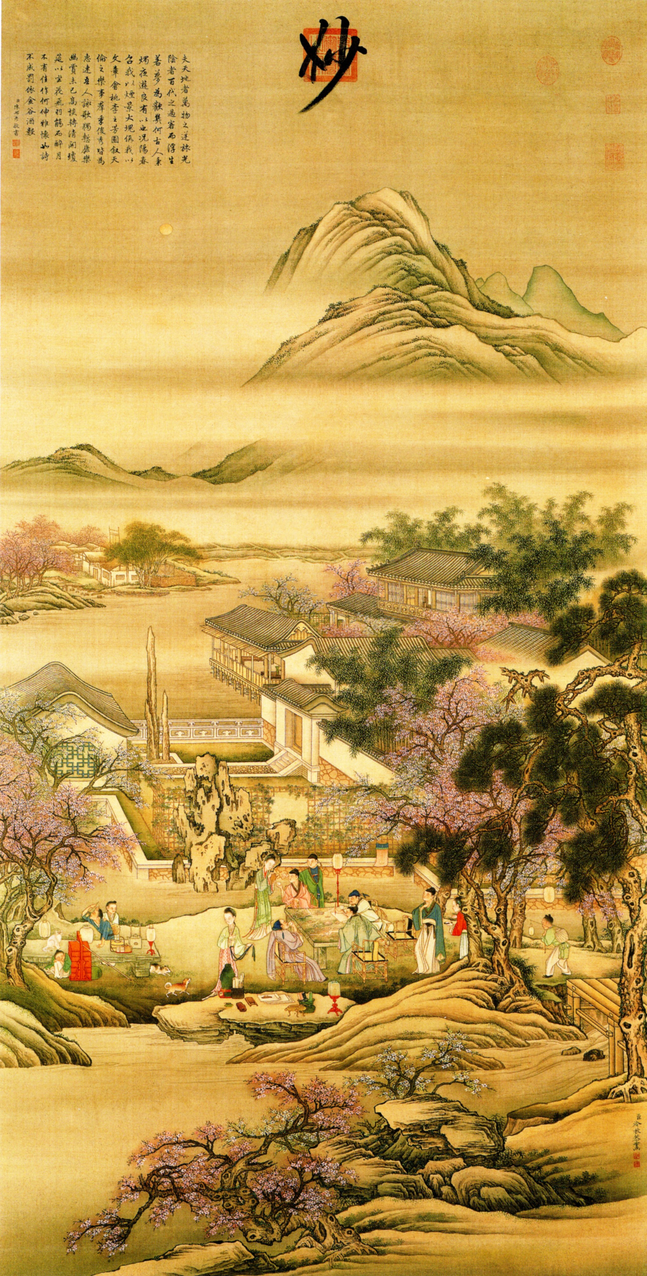 "The Spring Evening Banquet at the Peach and Pear Blossom Garden" (春夜宴桃李園) Ink and color on silk by Leng Mei (冷枚). Width 95.6 cm, Height 188.4 cm. Located in National Palace Museum, Taipei. The upper left contains Li Bai's essay (序文) "Banquet on a Spring Night in the Peach and Plum Garden" (春夜宴桃李園)as inscribed by Chen Bangyan (陳邦彦）: 夫天地者，萬物之逆旅。光陰者，百代之過客。而浮生若夢，為歡幾何？古人秉 燭夜游，良有以也。況陽春召我以煙景，大塊假我以文章。會桃李之芳園，序天倫之 樂事。群季俊秀，皆為惠連；吾人詠歌，獨慚康樂。幽賞未已，高談轉清。開瓊筵以 坐花，飛羽觴而醉月。不有佳作，何伸雅懷？如詩不成，罰依金谷酒數。 The lower right contains the artists inscription: Respectably painted by your subject Leng Mei (臣冷枚恭書). The two seals below this are also from the artist: "Subject Leng Mei" (臣冷枚) and "Never slacken morning or night"(夙夜匪懈). The upper seals are from collectors.